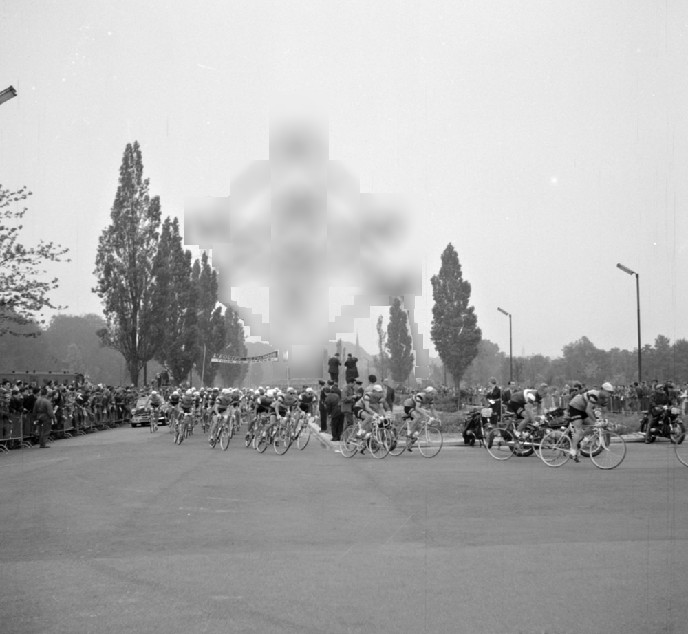 Racing cyclists passing the Atomium in Brussels. The image of the Atomium has been blurred in this version, as there was no freedom-of-panorama exception in Belgium until July 2016..